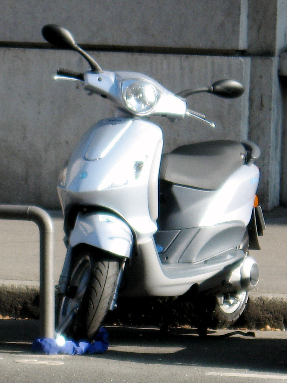 Piaggio Fly